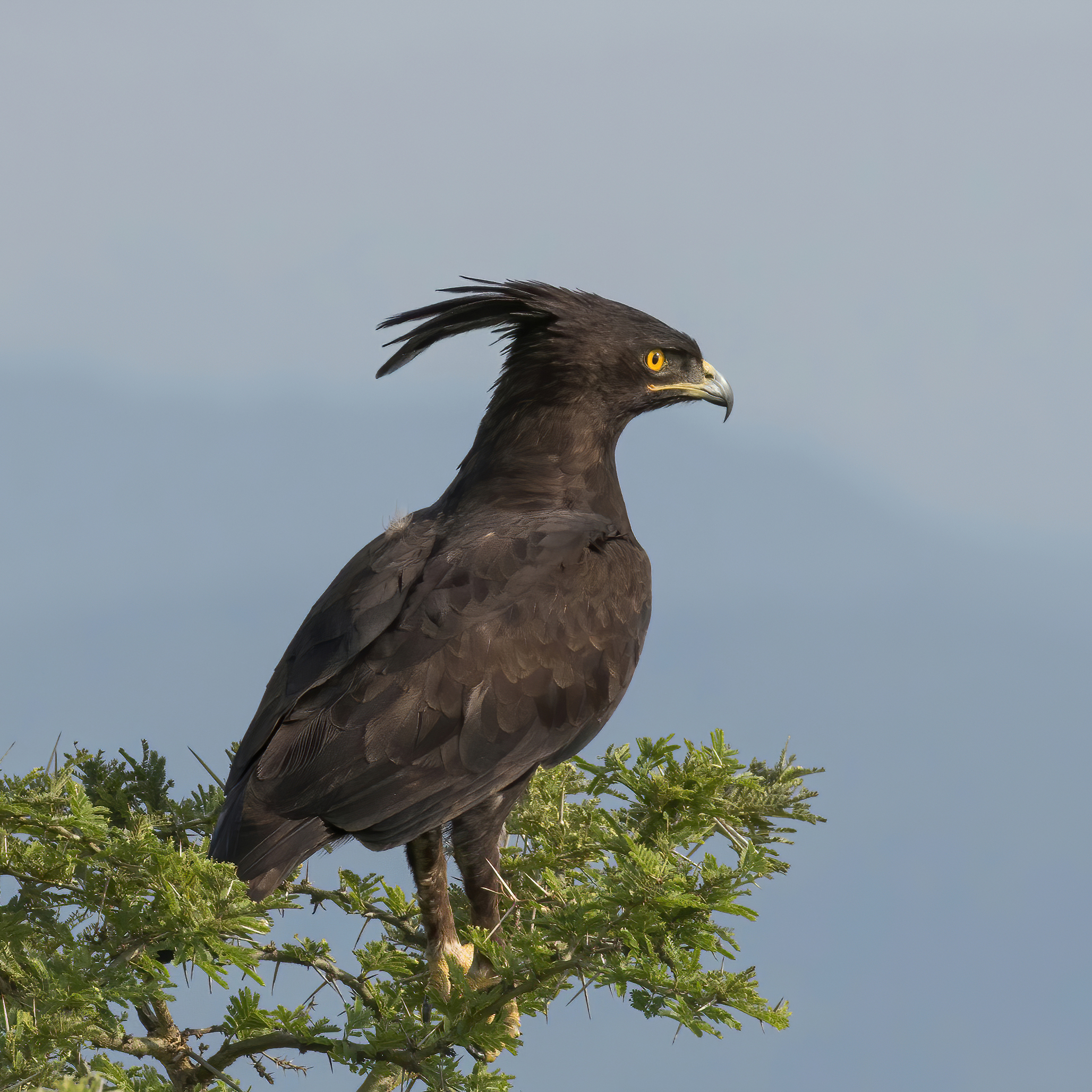 Long-crested eagle (Lophaetus occipitalis), Queen Elizabeth national Park, Uganda